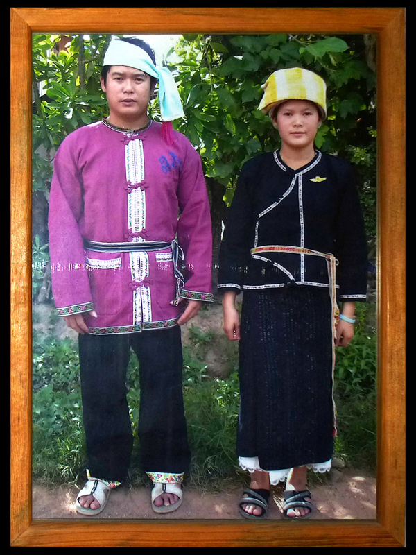 Portrait of Tai Neua people, Tribal Museum, Muang Sing, Luang Namtha Province, Laos.